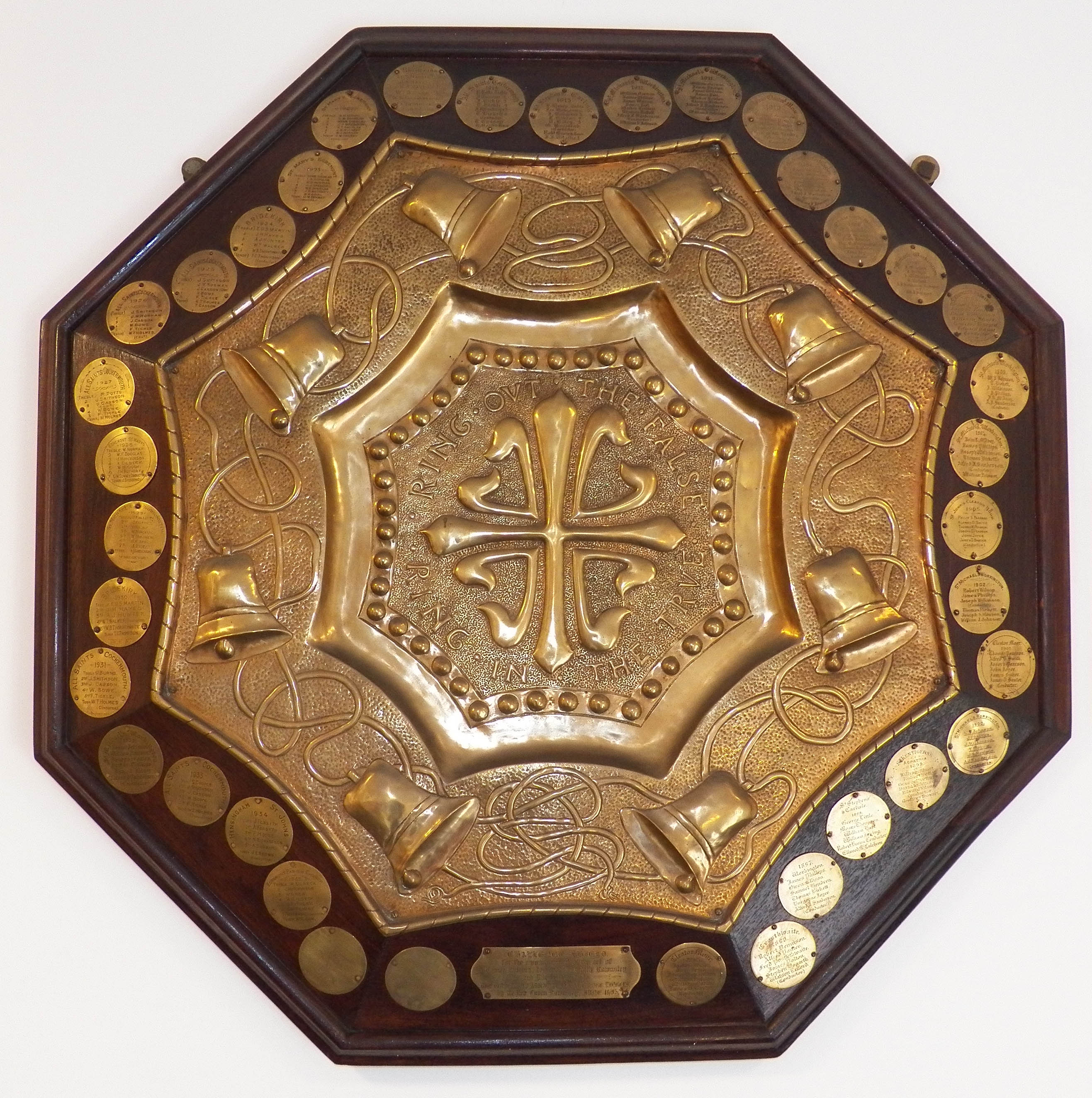 The Rawnsley Shield: designed by Edith Rawnsley, made by Keswick School of Industrial Art, and presented to the Cumberland Association of Bell Ringers in 1895 by Canon H D Rawnsley to be competed for annually in a striking competition. The shield was competed for until 1939. The competition was not resumed after WW2, but the shield is now the property of the Carlisle Diocesan Guild of Church Bell Ringers, the present successor Society to the Cumberland Association.